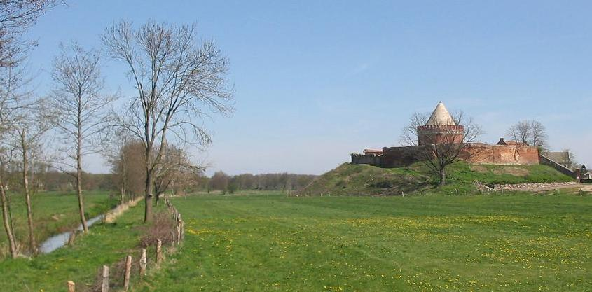 Northern River Nuthe in Lindau, one of three spring-rivers. Castle Lindau, probably built in 9th/10th century. First mentioned in 1179. Lindau is a small town in the Nature park Fläming in the district Anhalt-Bitterfeld, state Saxony-Anhalt, Germany.